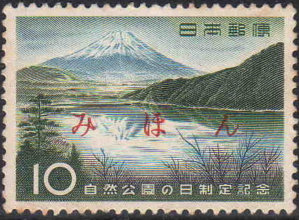 Specimen stamp